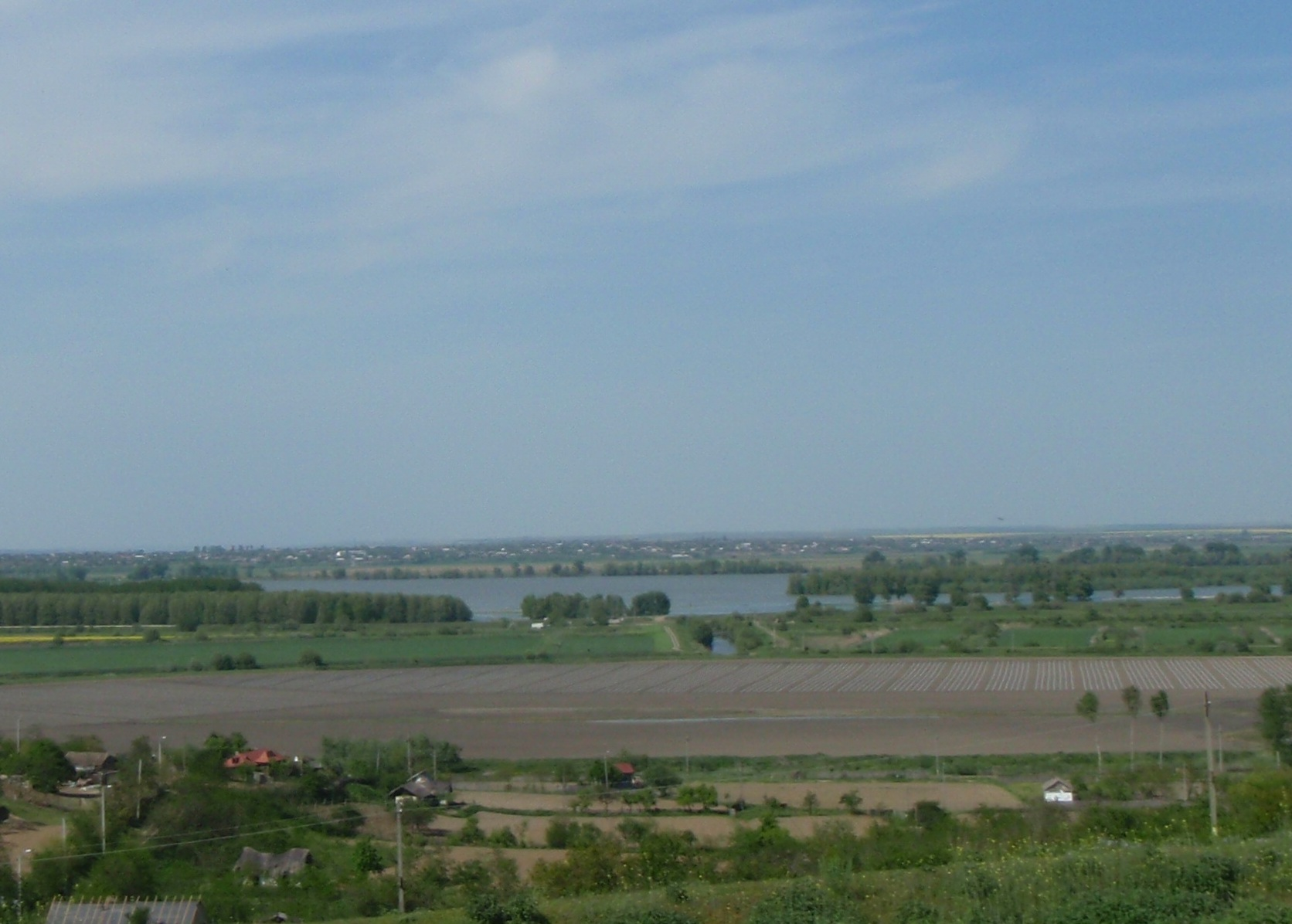 Wiewpoint west of Isaccea, between the town and the village of Reversarea, looking towards the Danube and the ukranian town of Orlivka.